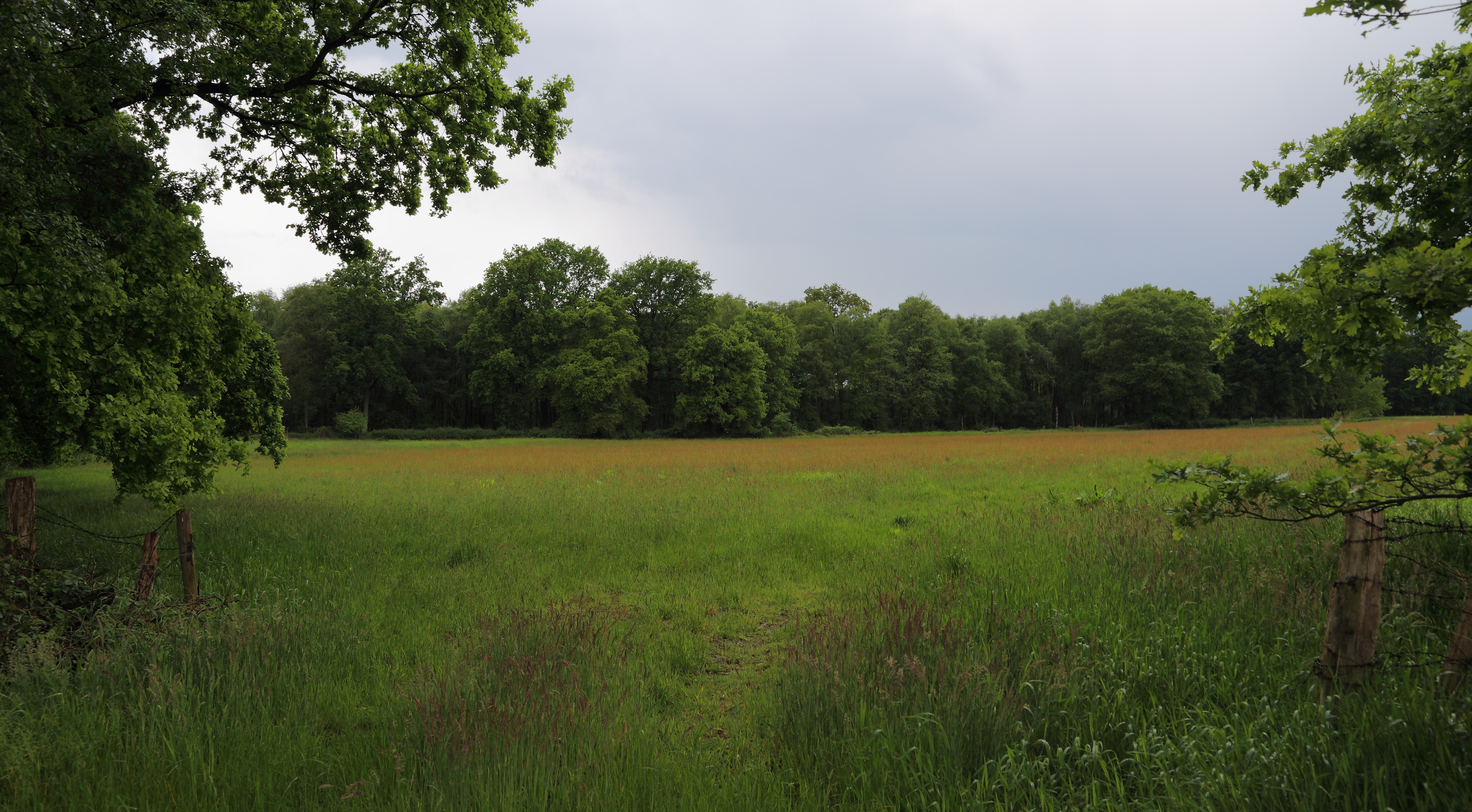 The nature reserve (Naturschutzgebiet/NSG) „Fledder“ in Hopsten-Schale, Kreis Steinfurt, North Rhine-Westphalia, Germany.